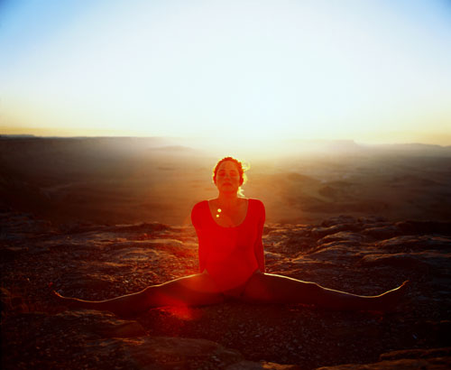 Mitzpe Ramon”, from the series "Split” by Meirav Heiman